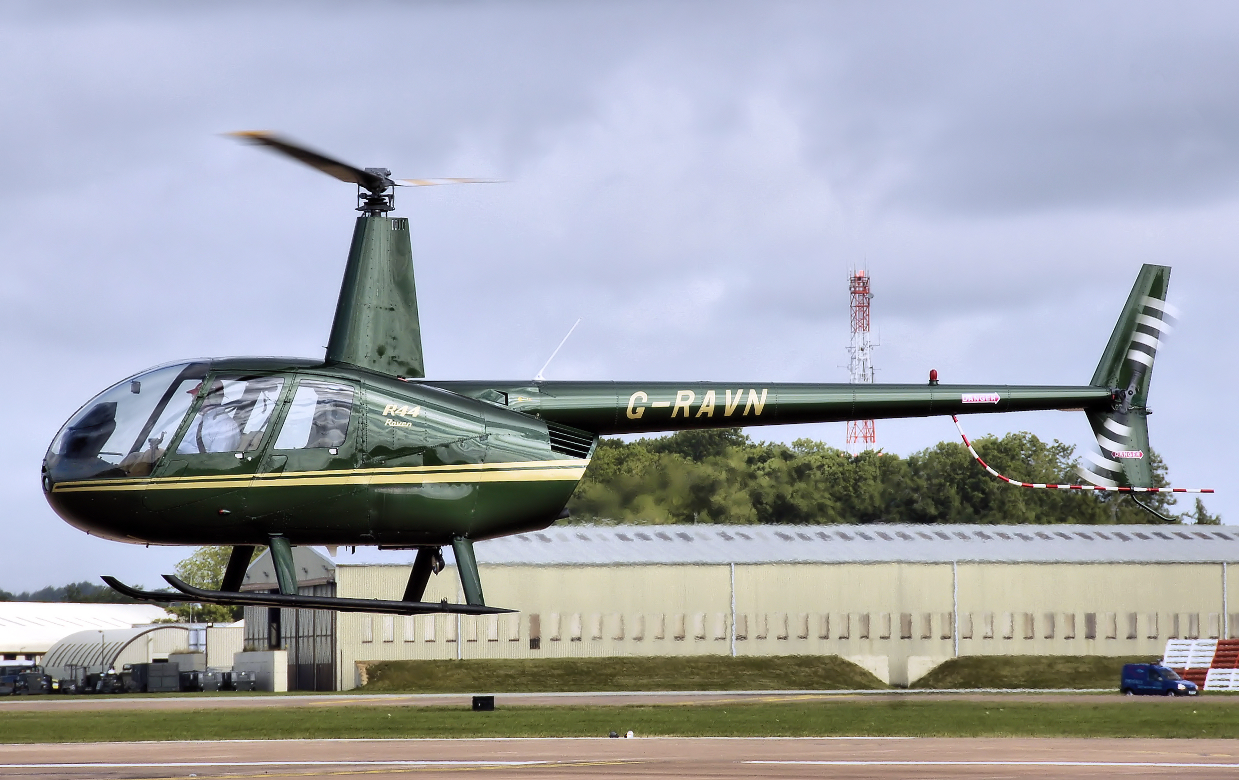 Robinson R44 Raven helicopter (G-RAVN) at the Royal International Air Tattoo, Fairford, Gloucestershire, England. Taken at RIAT Fairford on the Thursday before the weekend show days. Later, both show days (Saturday and Sunday) were cancelled due to flooded car parks.